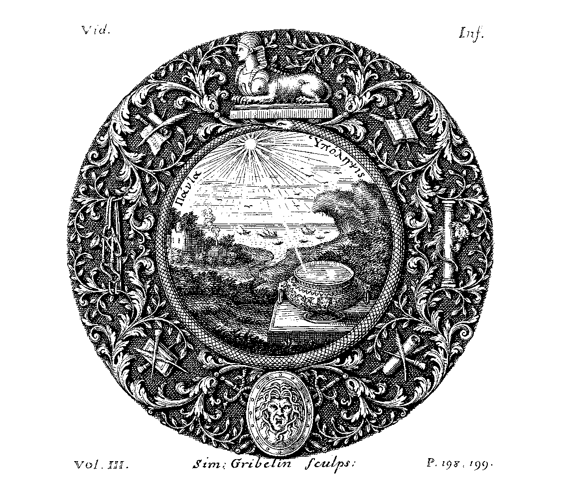 The emblem engraved for the frontispiece of Lord Shaftesbury's Characteristicks of Men, Manners, Opinions, Times according to the author's instructions.